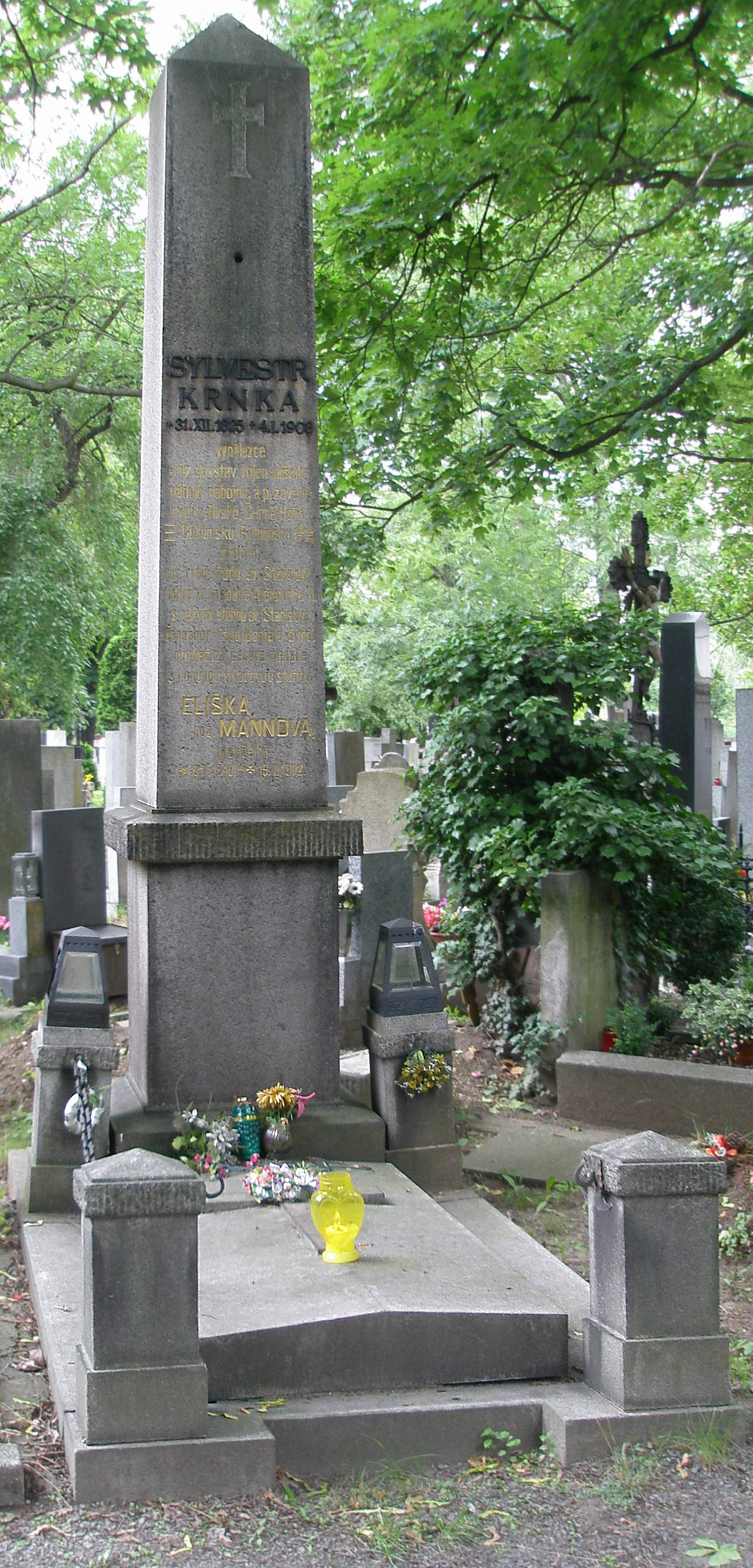 Grave of Czech inventor Sylvestr Krnka